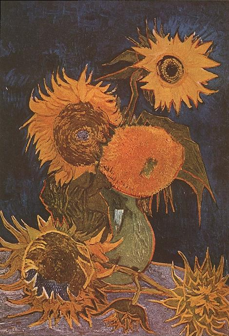 Destroyed by fire in the Second World War in Yokohama